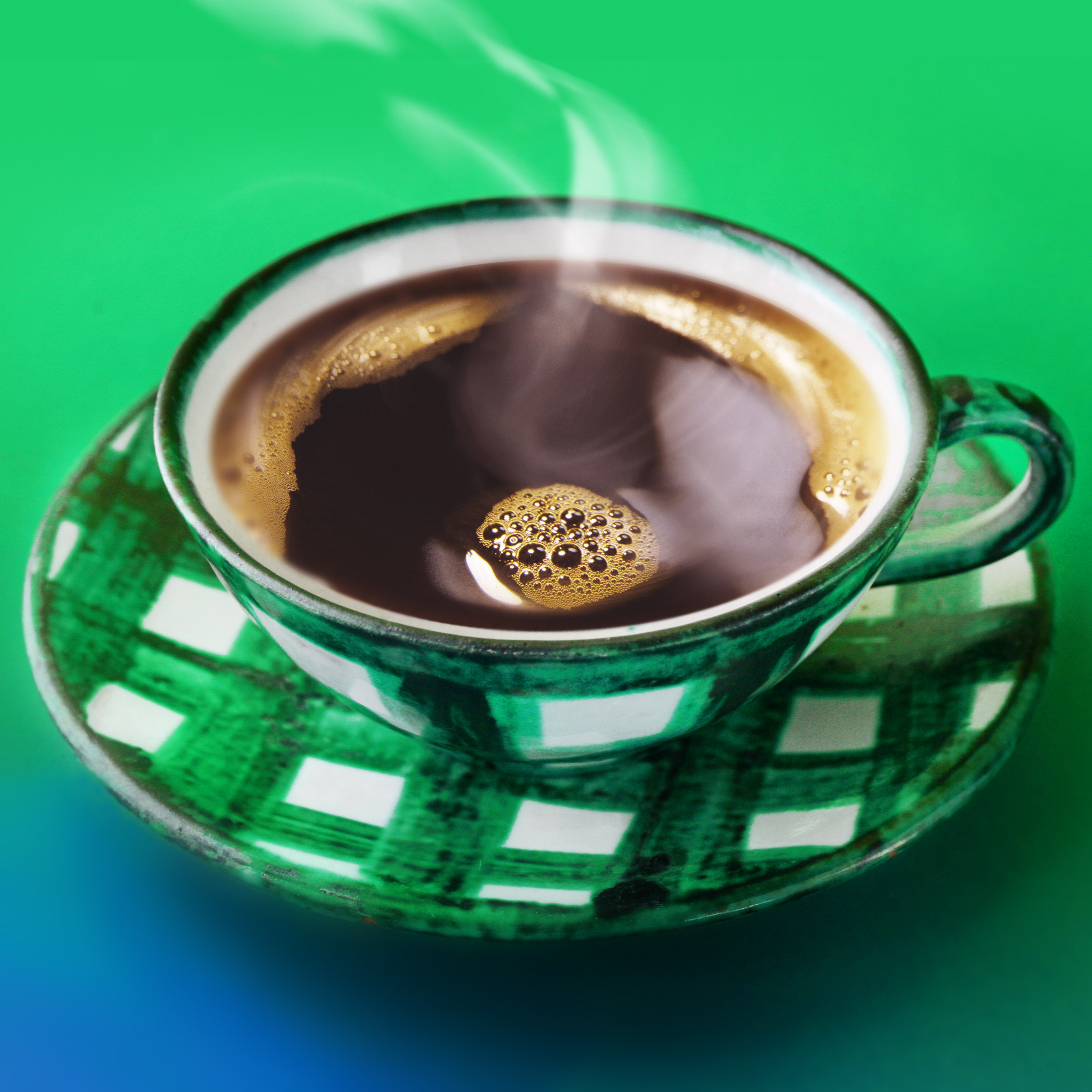 Cafe - Time, Coffe cup - hand made from Hungary, 1960's year